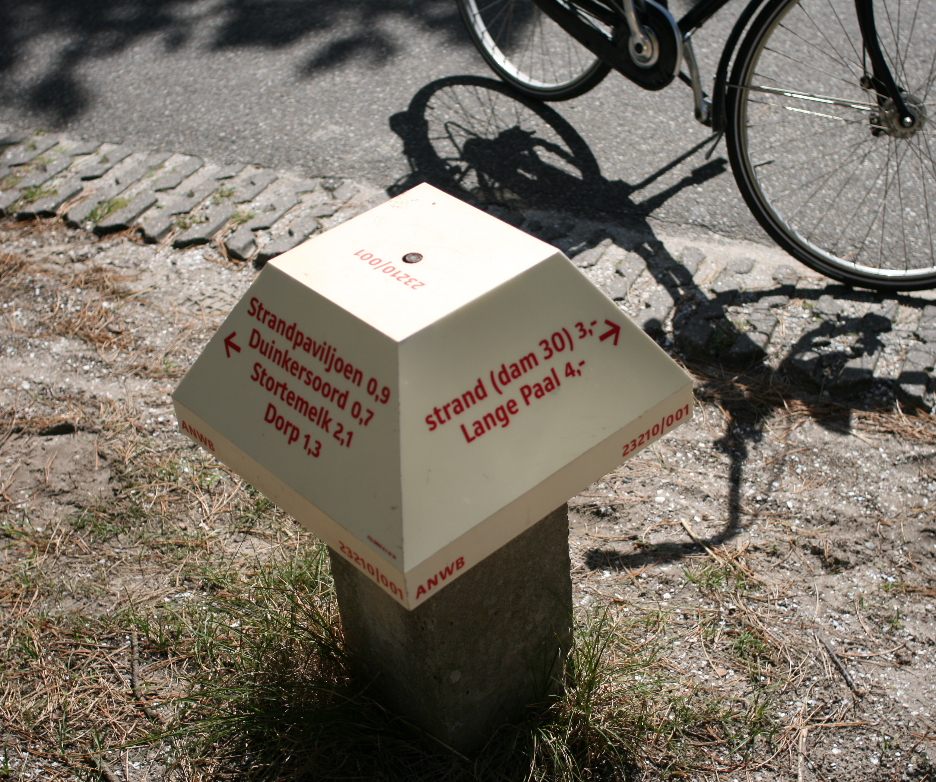 Signpost for cycling and walking tourists on Vlieland